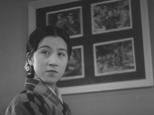 Setsuko Shinobu in Kagiri naki hodo (限りなき舗道) directed by Mikio Naruse - 1934